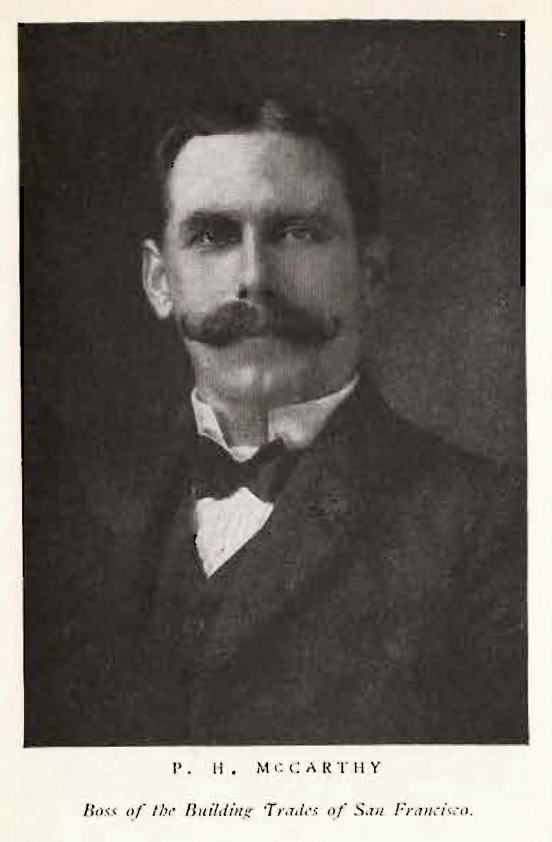 This is a picture of Patrick Henry McCarthy, 29th Mayor of San Francisco.